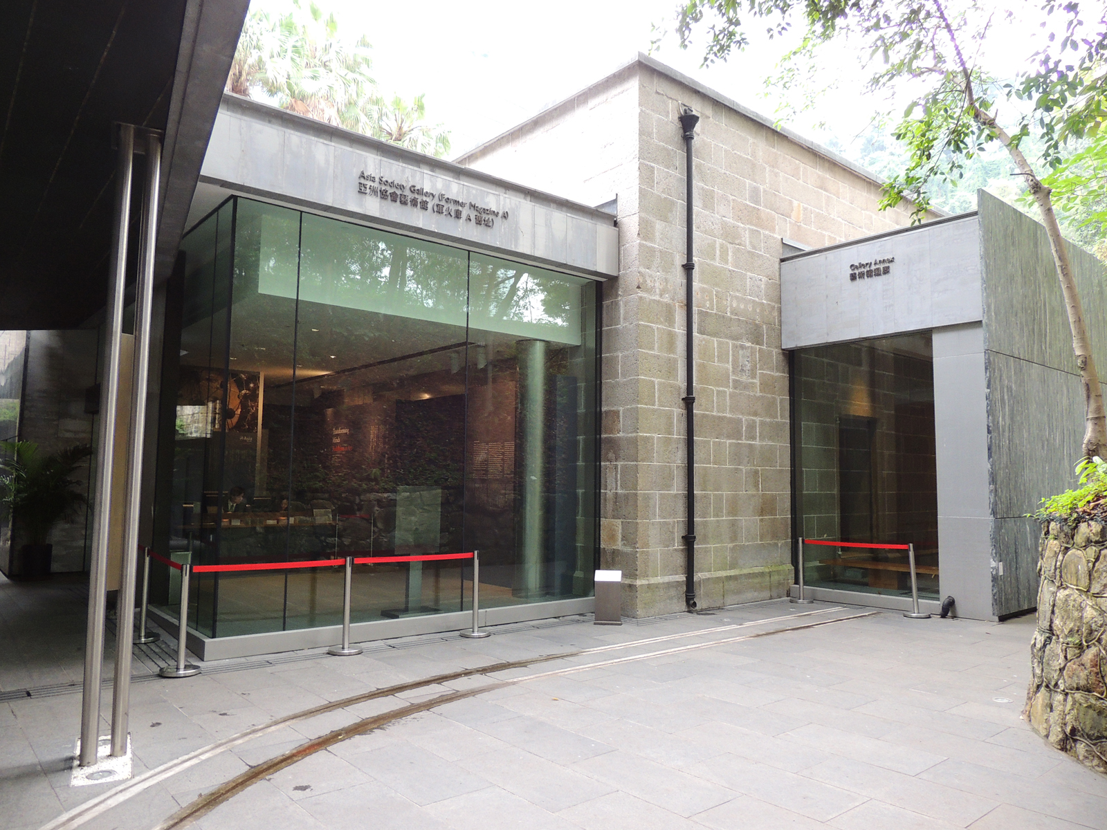 Magazine A, Former Explosives Magazine of the Old Victoria Barracks